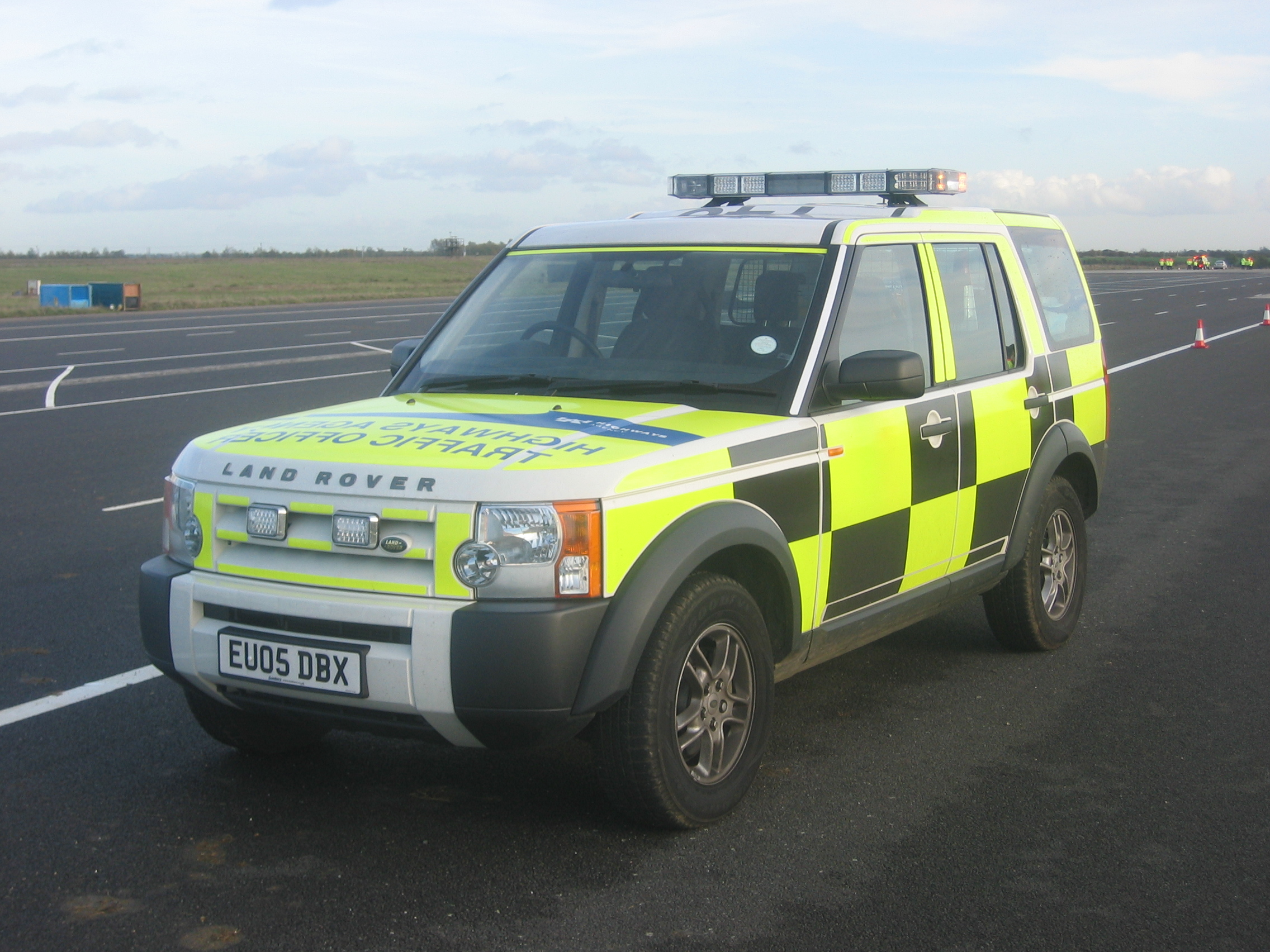 A typical United Kingdom Highways Agency Traffic Officer (HATO) vehicle.